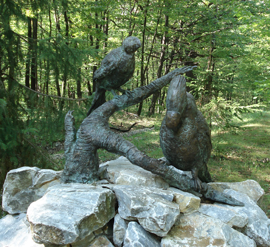 Statue – Rodriguez Ring-necked Parakeet and Broad-billed Parrot. Wildlife park, The statue park of extinct animals, Miskolc, Hungary